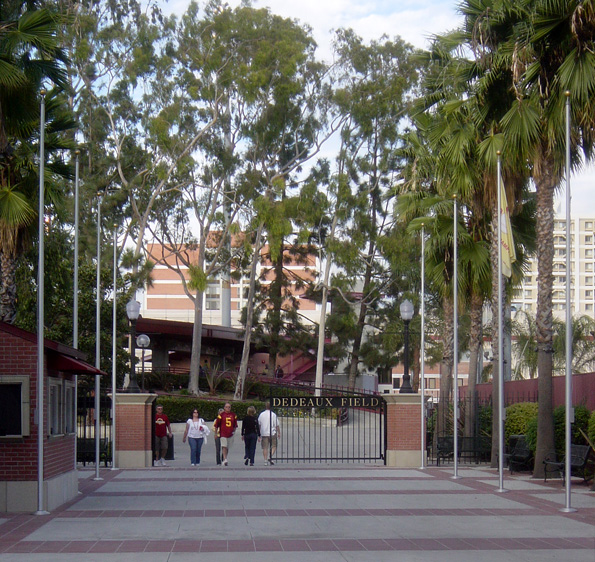 Entrance to USC's Dedeaux Field. The path to the entrance is named Mark McGwire Way. Photo taken by Bobak Ha'Eri, on November 11, 2006. Please observe license and properly cite in use outside Wikipedia. Category:Images of Los Angeles, California